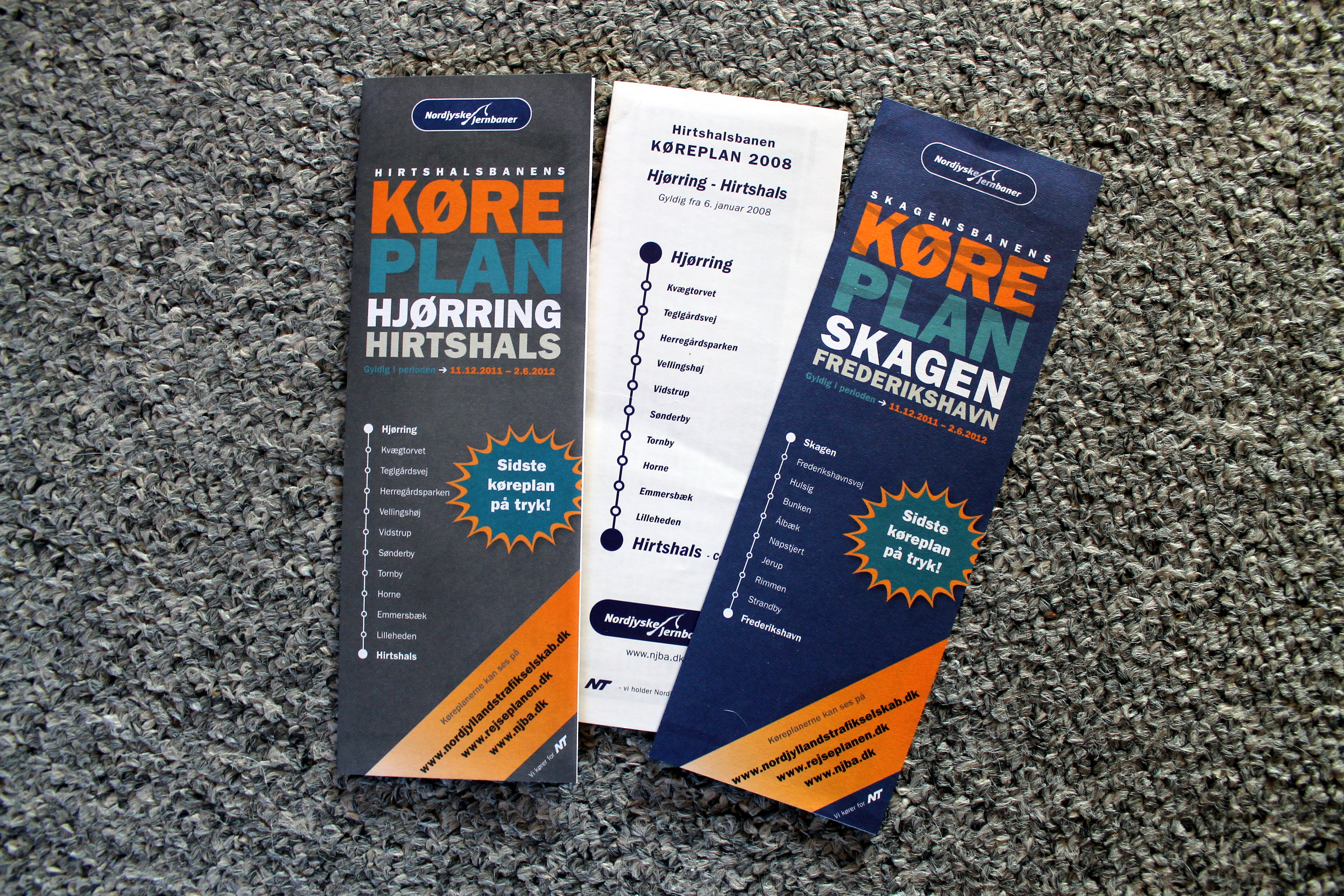 Hjørring-Hirtshals and Skagen-Frederikshavn (Denmark) rail lines timetables